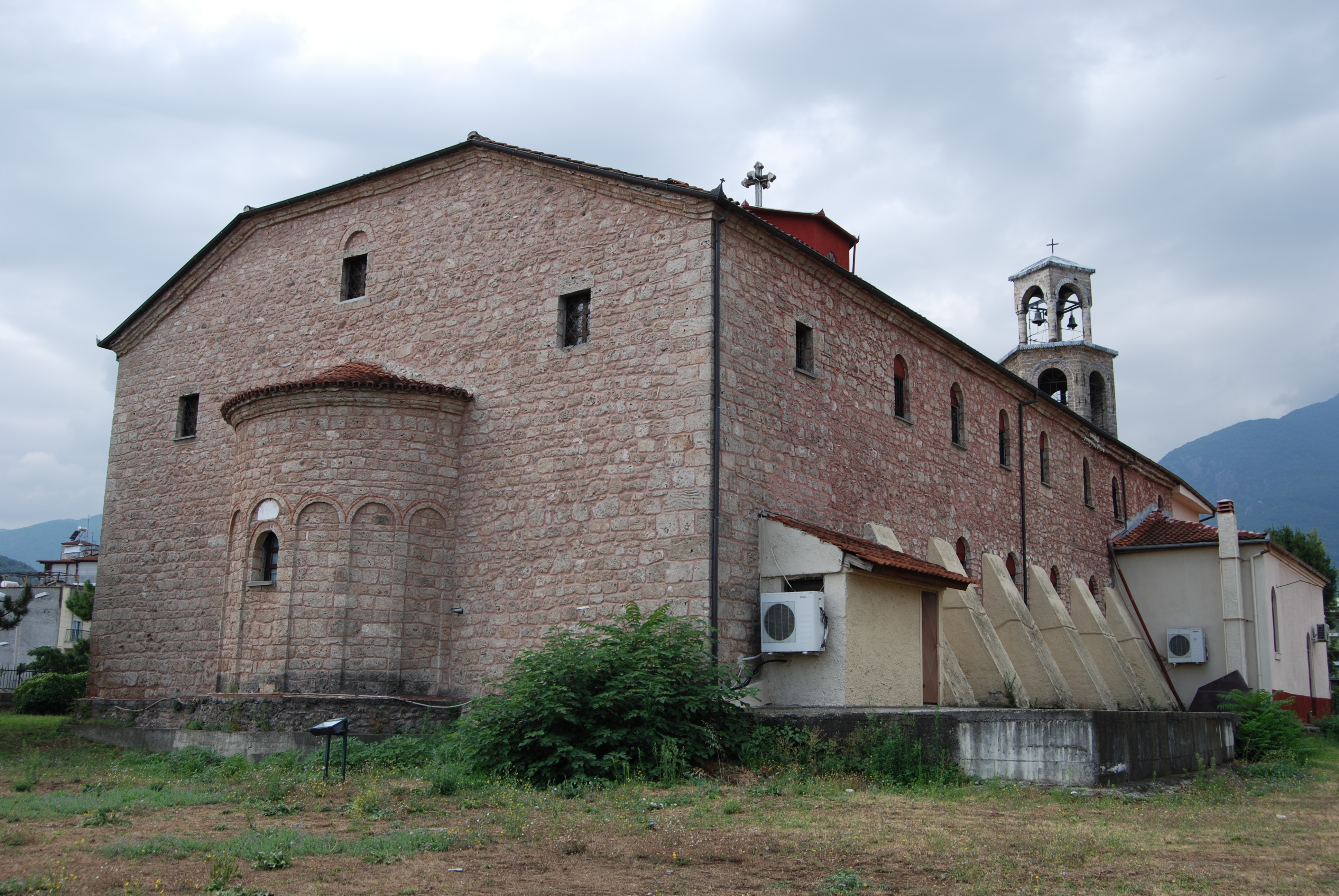 St. Nikolaos Negush